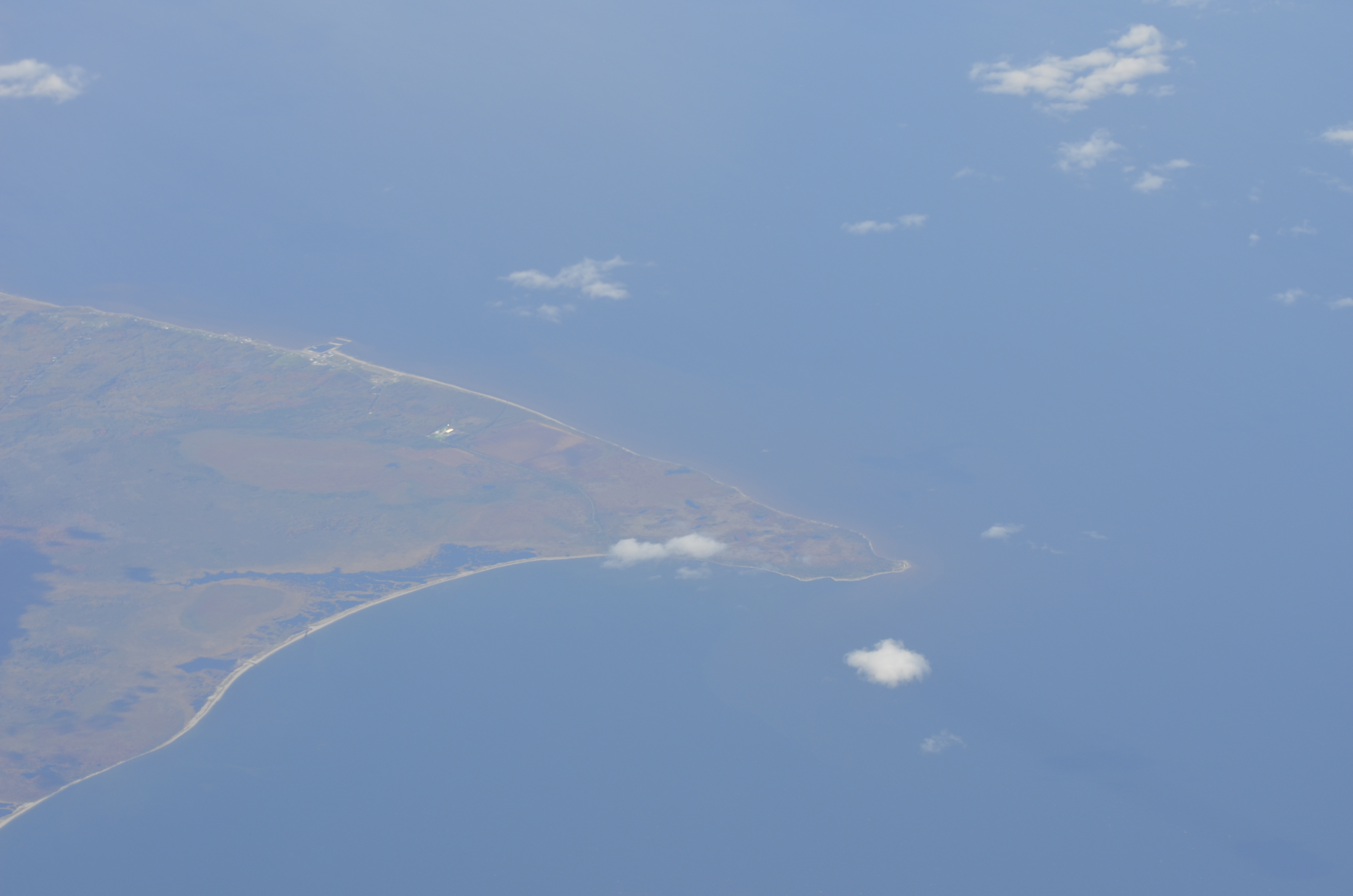 Aerial photo of Point Escuminac, New Brunswick, looking north